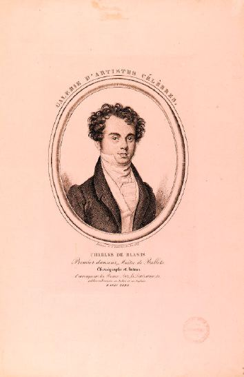 Carlo Blasis, after a portrait by Thomas Lawrence (1828). Paris, BNF (Gallica).